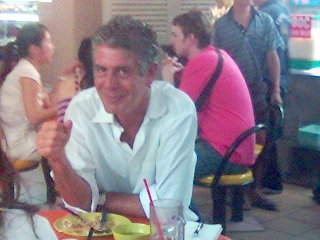 Chef Anthony Bourdain at Maxwell Food Centre, Singapore.